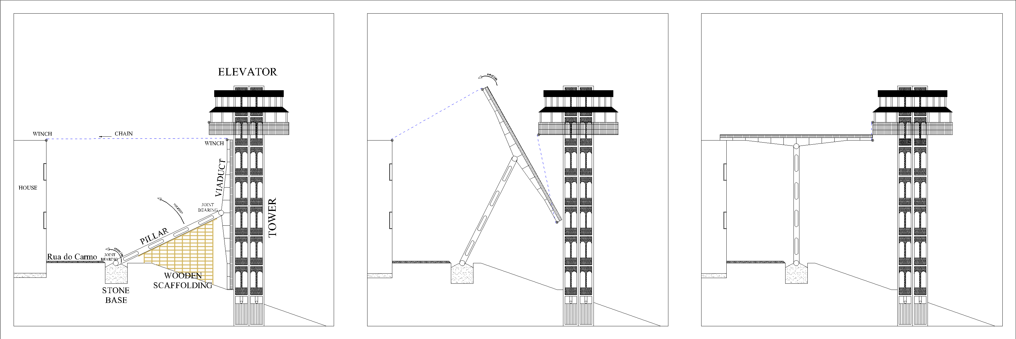 Sketch depicting rotation and lifting into their final positions of the viaduct and pillar of Santa Justa Lift in Lisbon, as described by Gazeta dos Caminhos de Ferro, no. 1530 from 16 September 1951.